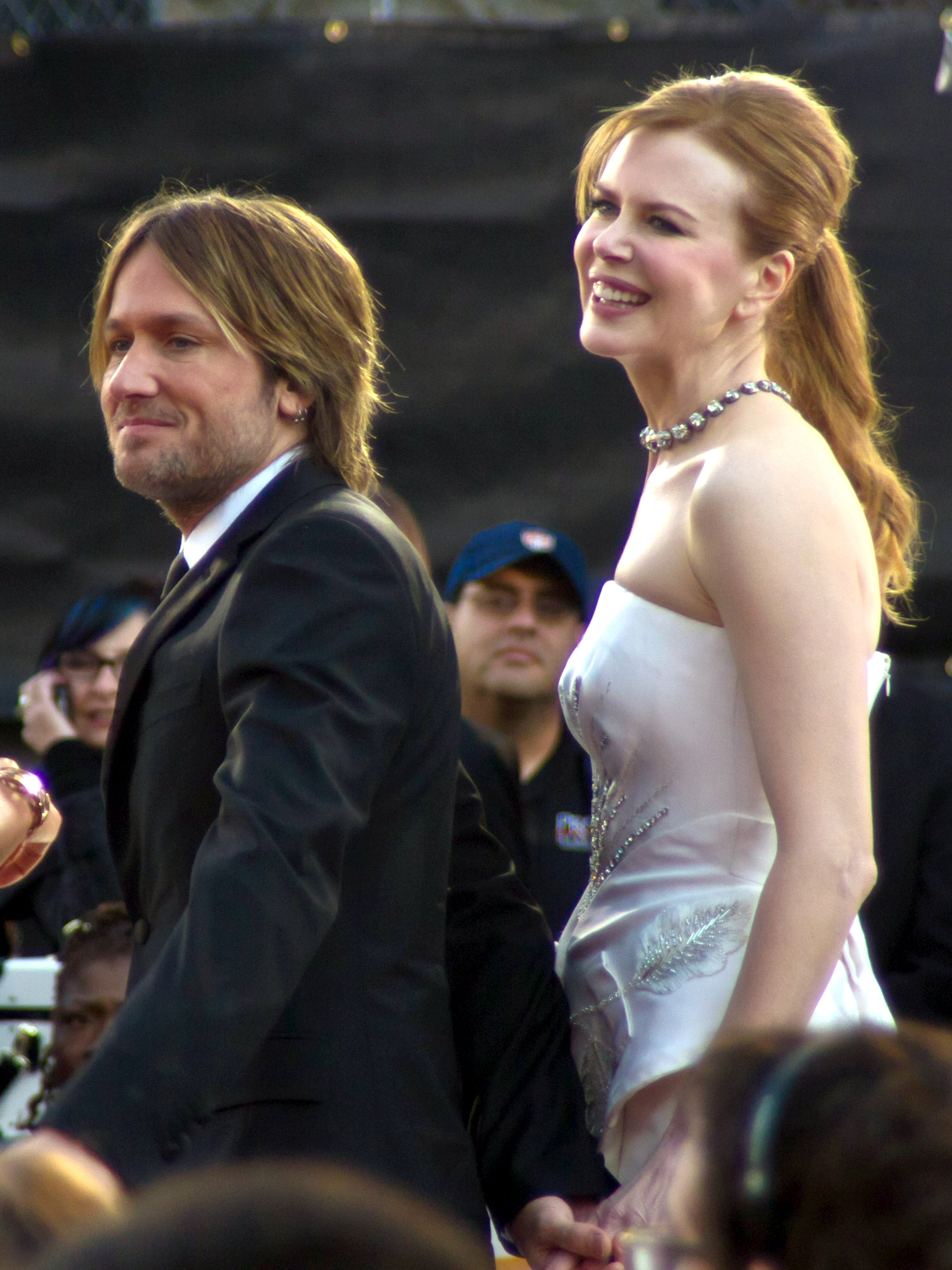 A cropped version of File:Nicole Kidman & Keith Urban 03.jpg